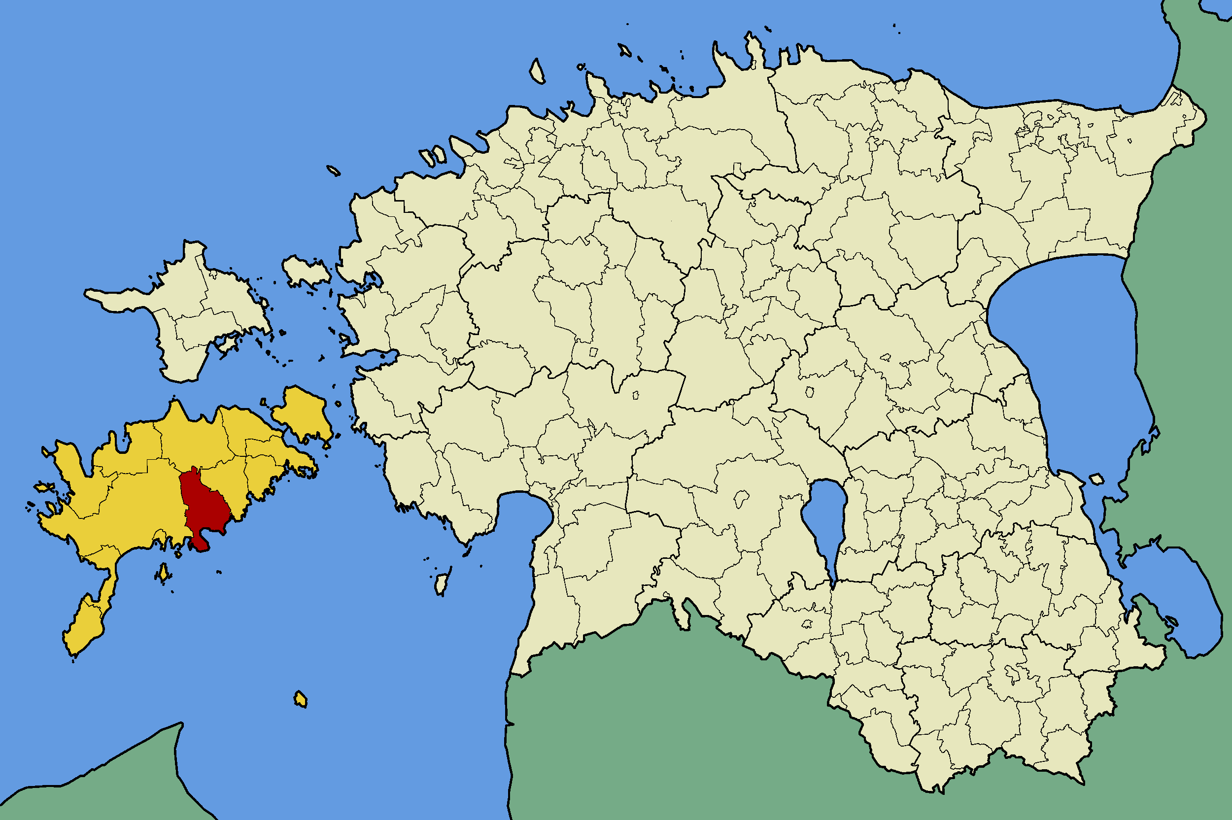 Map of Estonia with borders of municipalities (parishes). Saare county and Pihtla municipality emphasized.